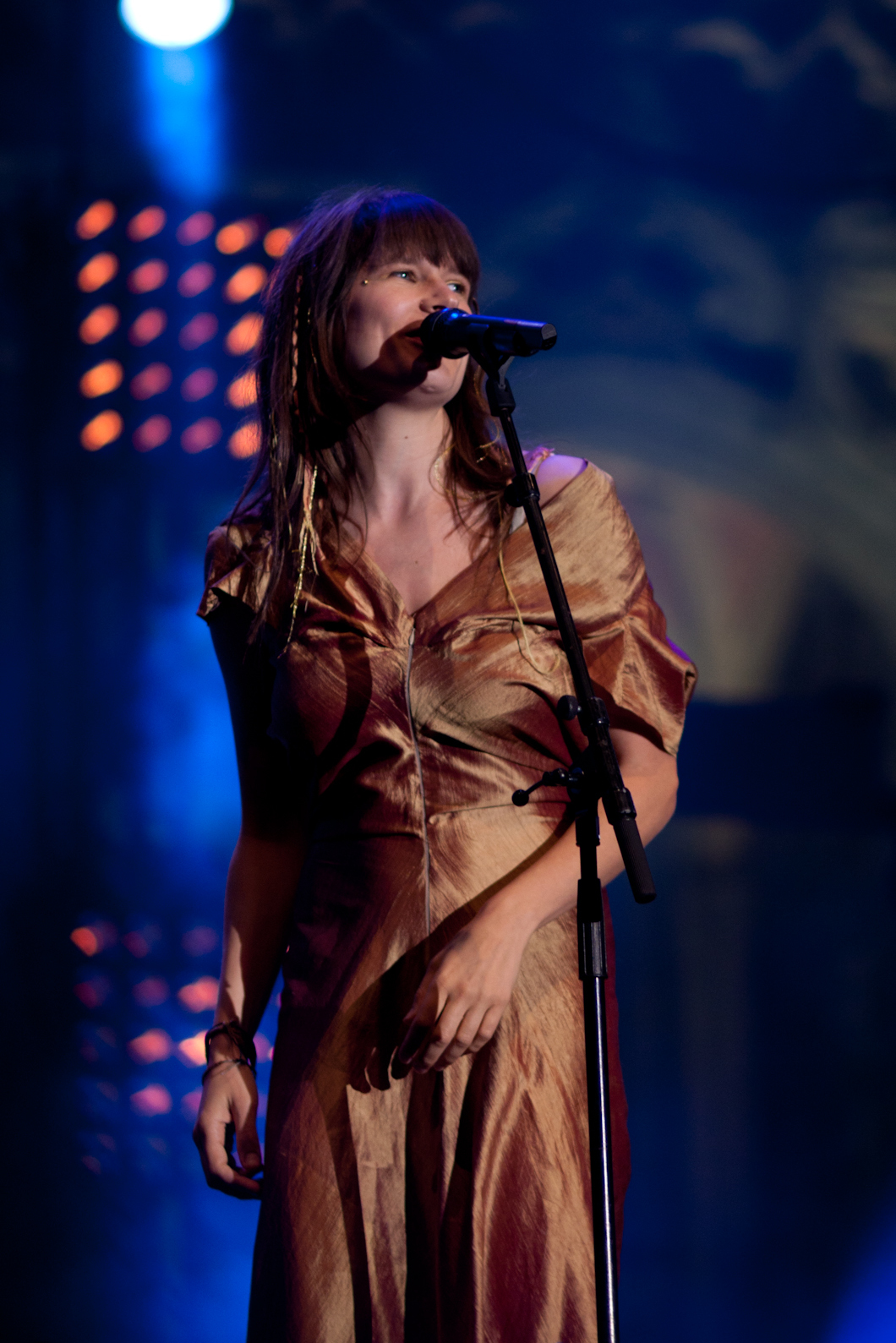 Follow me on facebook Twitter : @didyPhotography All the photographies I've made are now under CC0 (Creative Commons Zero) CC0 - learn more To the extent possible under law, Eddy BERTHIER has waived all copyright and related or neighboring rights to Camille @ Fête de la Fédération Wallonie-Bruxelles. This work is published from: France.